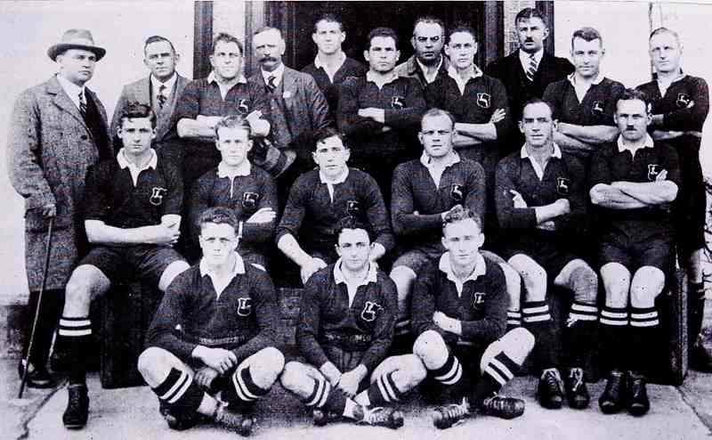 South Africa's national rugby team (Springboks) before the third Test against the touring British Isles team in 1924 at Port Elizabeth, South Africa. (Standing): SR Townsend (selector), TJ Dobbin (selector), N du Plessis, AF Markotter (selector), J le Grange, J van Druten, WA Millar, N Bosman, WF Schreiner (chairman, SA selection committee), FW Mellish, M Ellis. (sitting): D Devine, BL Osler, PK Albertyn (captain), TL Kruger (vice-captain), AP Walker, BE van der Plank. (front: J Slater, JS de Kock, K Starke.